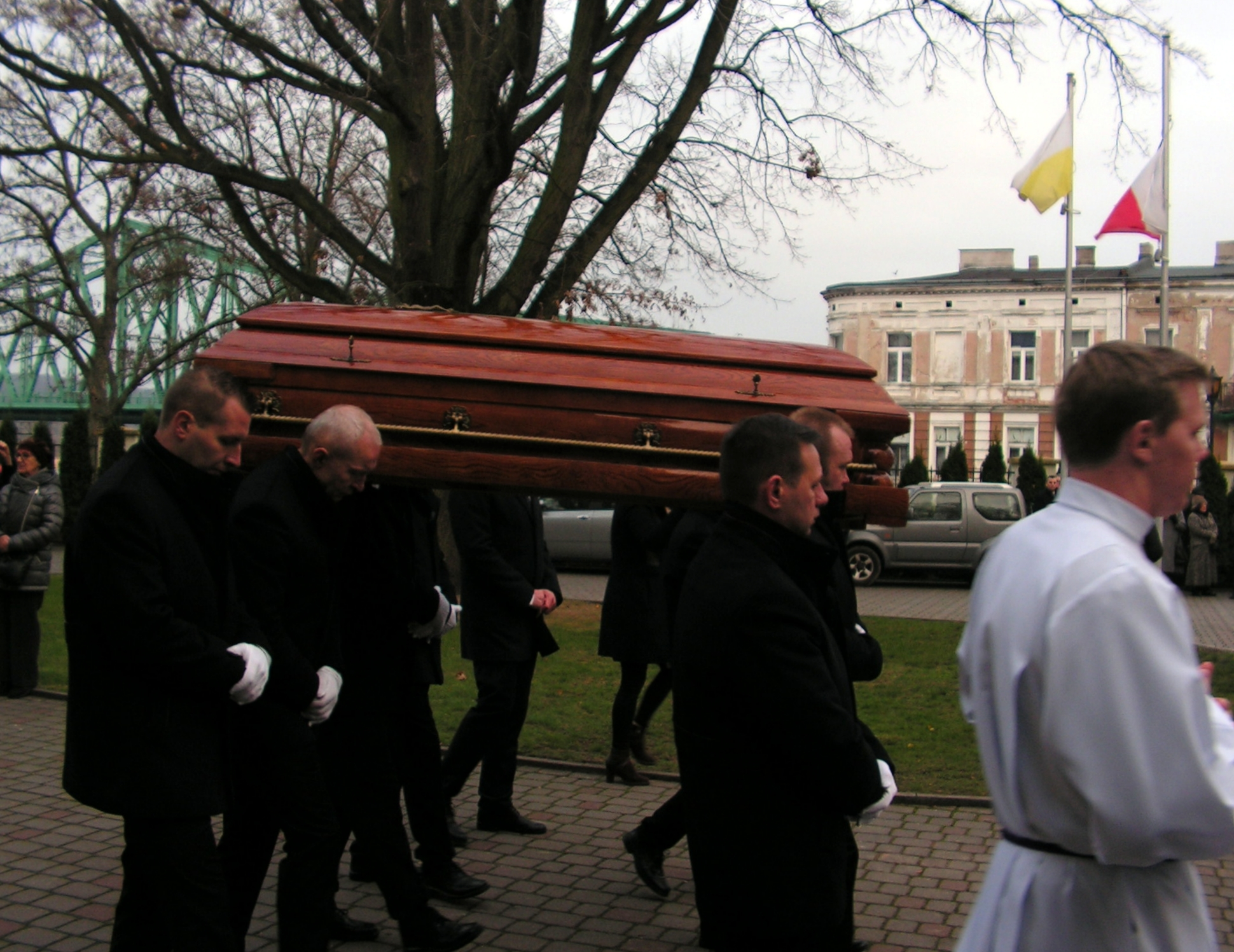 Coffin with body of bishop Bronisław Dembowski is going in funeral procession from Bishop Palace to Cathedral in Włocławek.